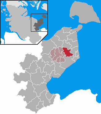 This map shows the area of the Gemeinde (municipality) Riepsdorf in the Kreis (district) Ostholstein, Schleswig-Holstein, Germany.